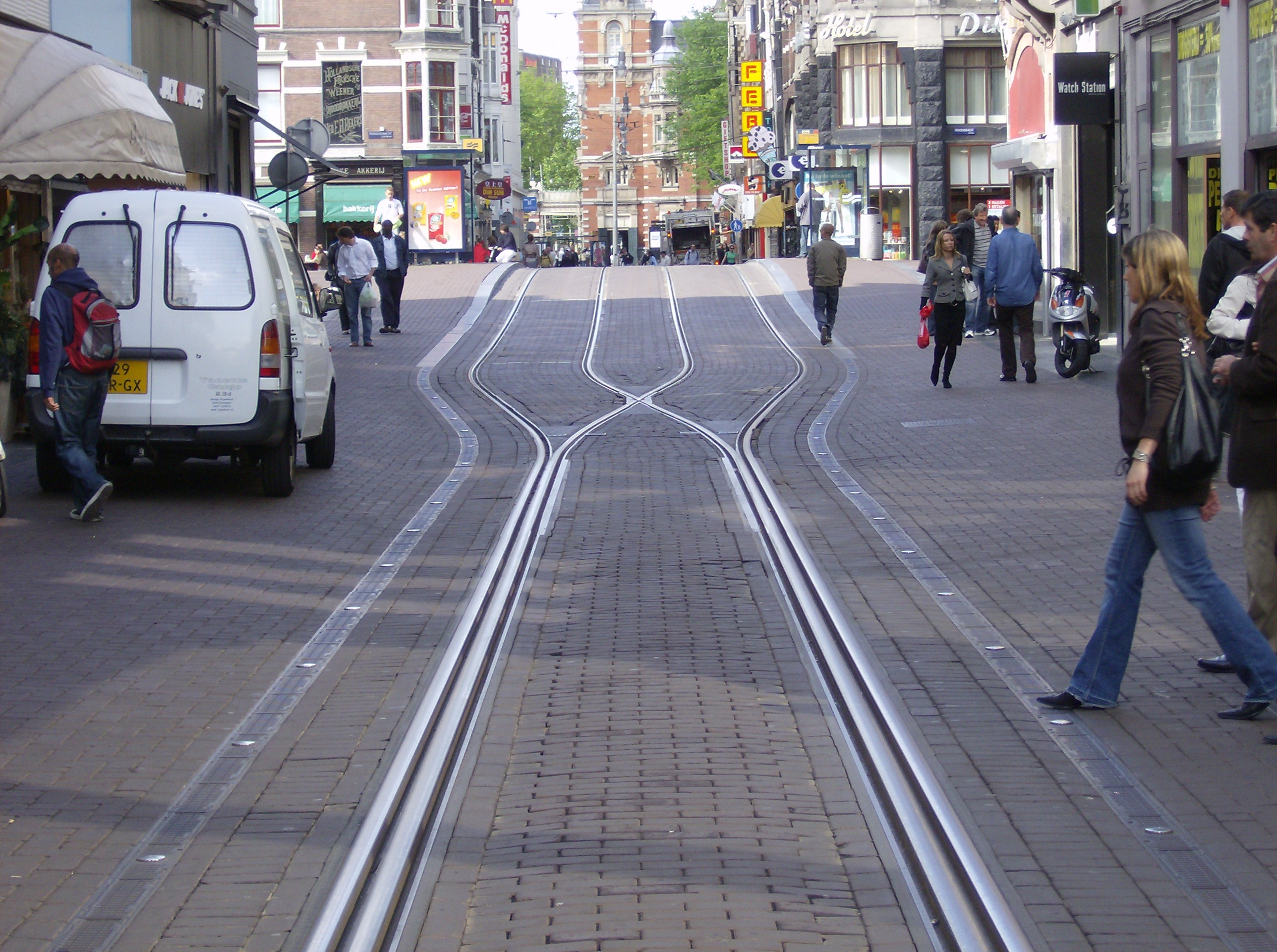 Scene at the Leidsestraat in Amsterdam without a tram in sight